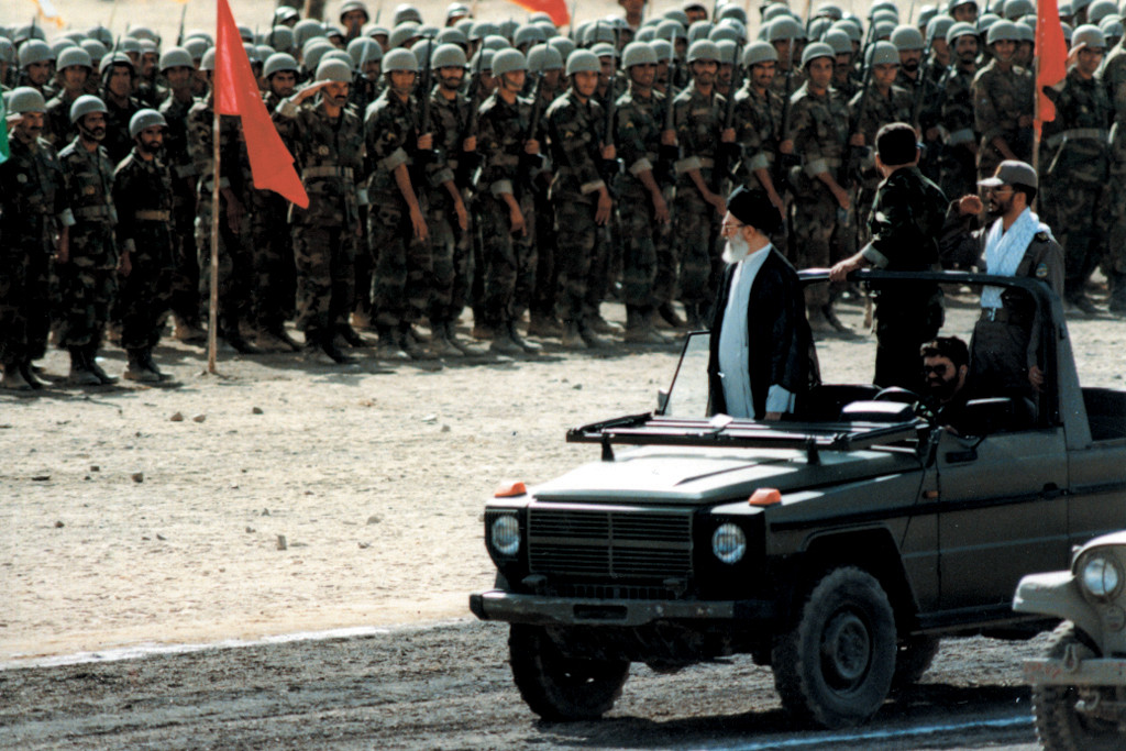 Ali Khamenei, Supreme Leader of Iran